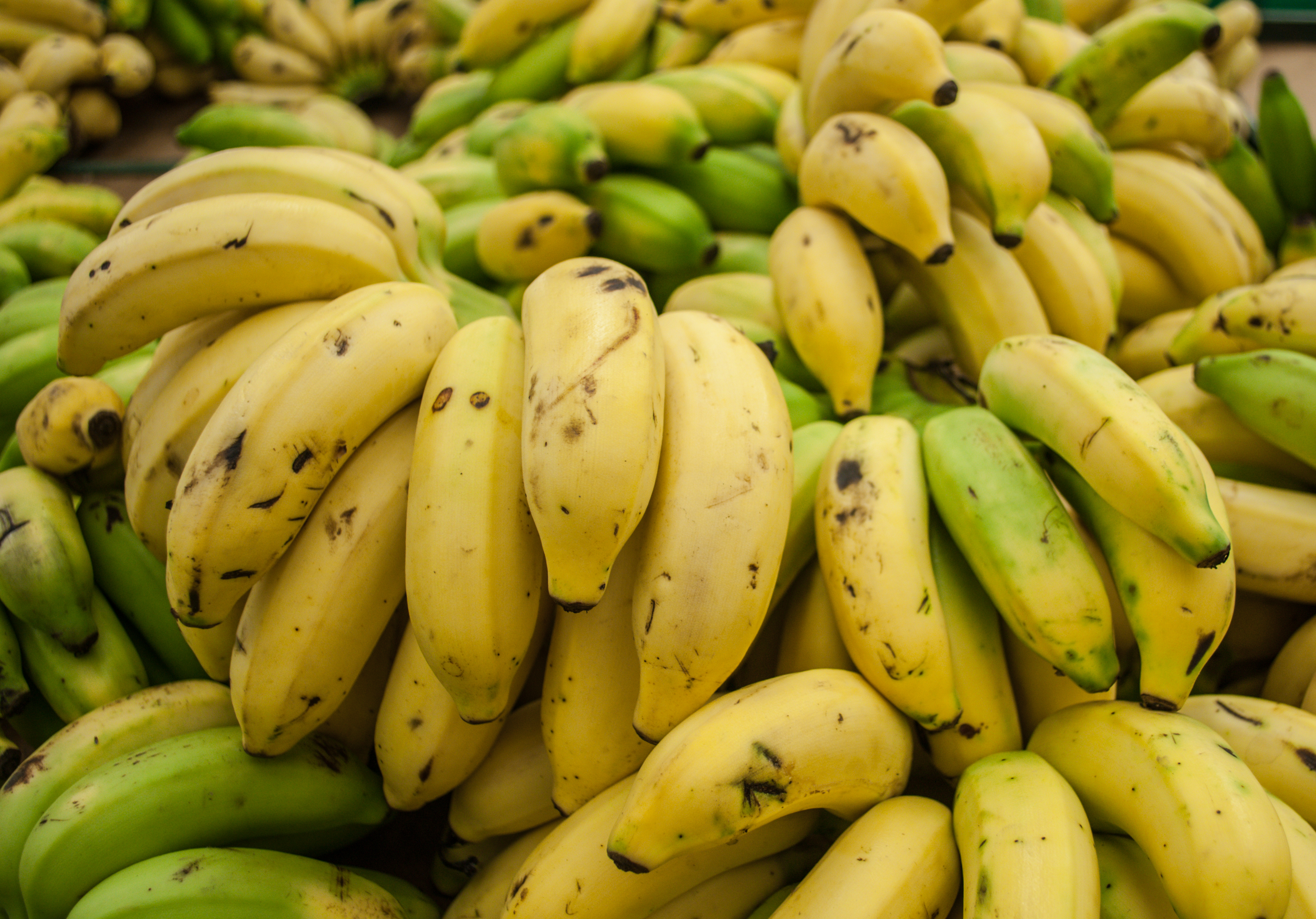 Cavendish banana from Maracaibo